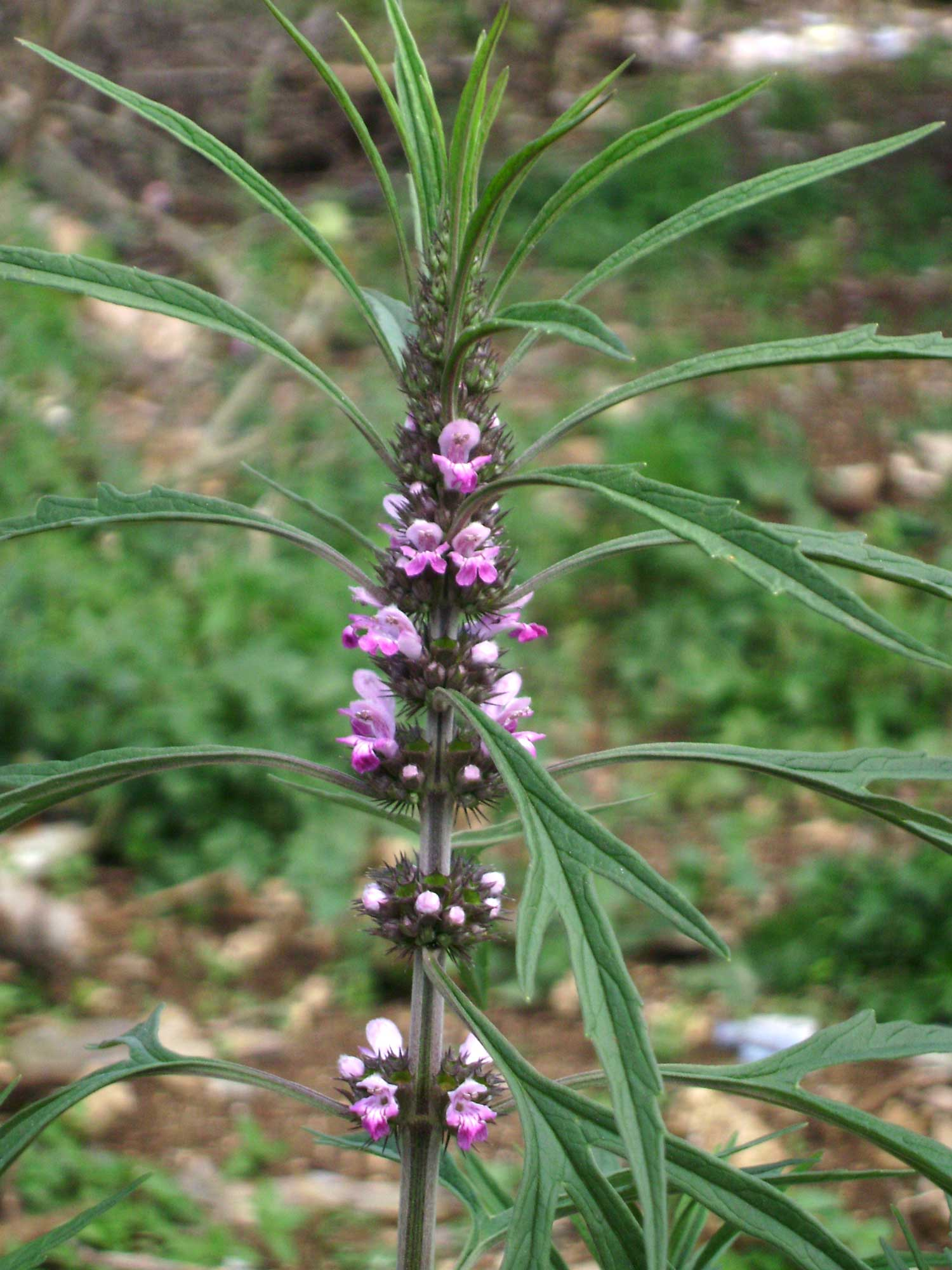 Leonurus sibiricus; a common weed in Tonga